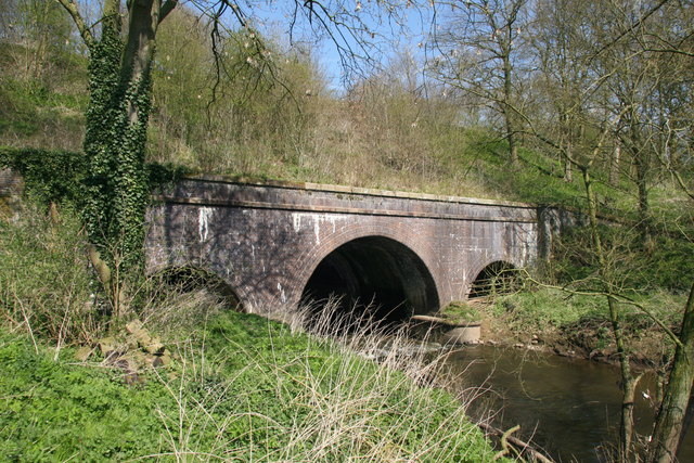 Aqueduct on the Shropshire Union Canal over the River Weaver